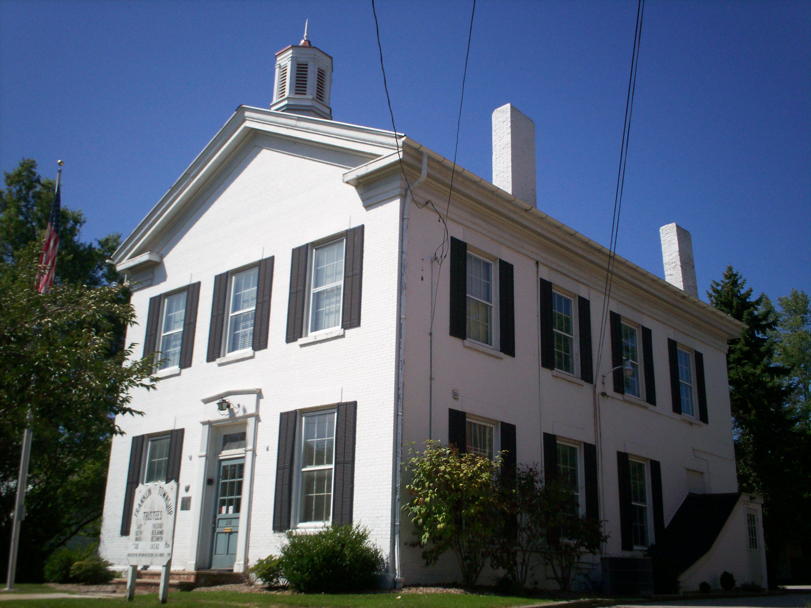 The Franklin Township Hall in Kent, Ohio built in 1837 and listed on the National Register of Historic Places.